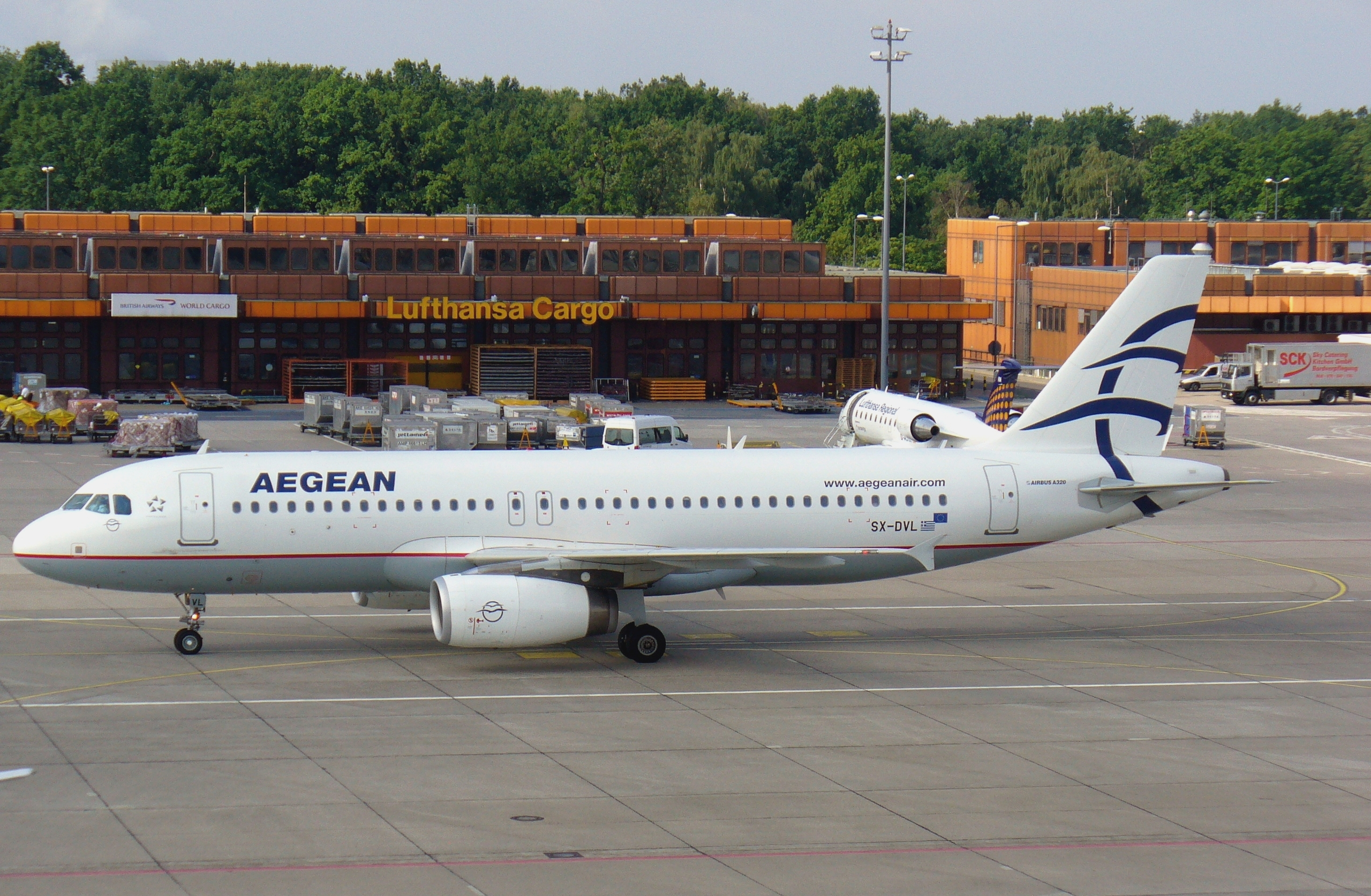 An Airbus A320-200 of Aegean Airlines taxiing at Berlin-Tegel Airport following a flight from Athens.